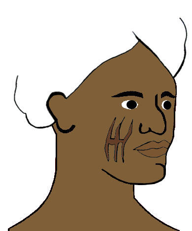 Sketch showing the typical scarification of the Abdallabs, a Sudanese tribe founded shortly before the desctruction of the kingdom of Alodia (c 1500). After the rise of the Funj Sultanate the Abdallabs ruled the western Gezira as petty kings (Meks) until the Turko-Egyptian invasion of 1820-1821. Thanks to User:Boreas Novus for helping me out.